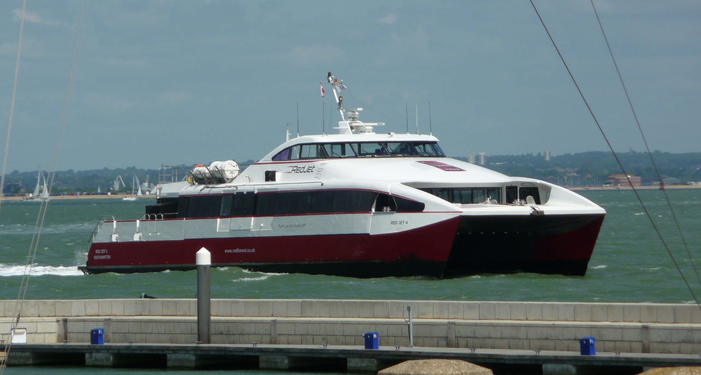 Red Funnel Red Jet 4, a high speed catamaran vessel, seen from Cowes Parade heading for Cowes. Note the Red Nose stuck to the front.